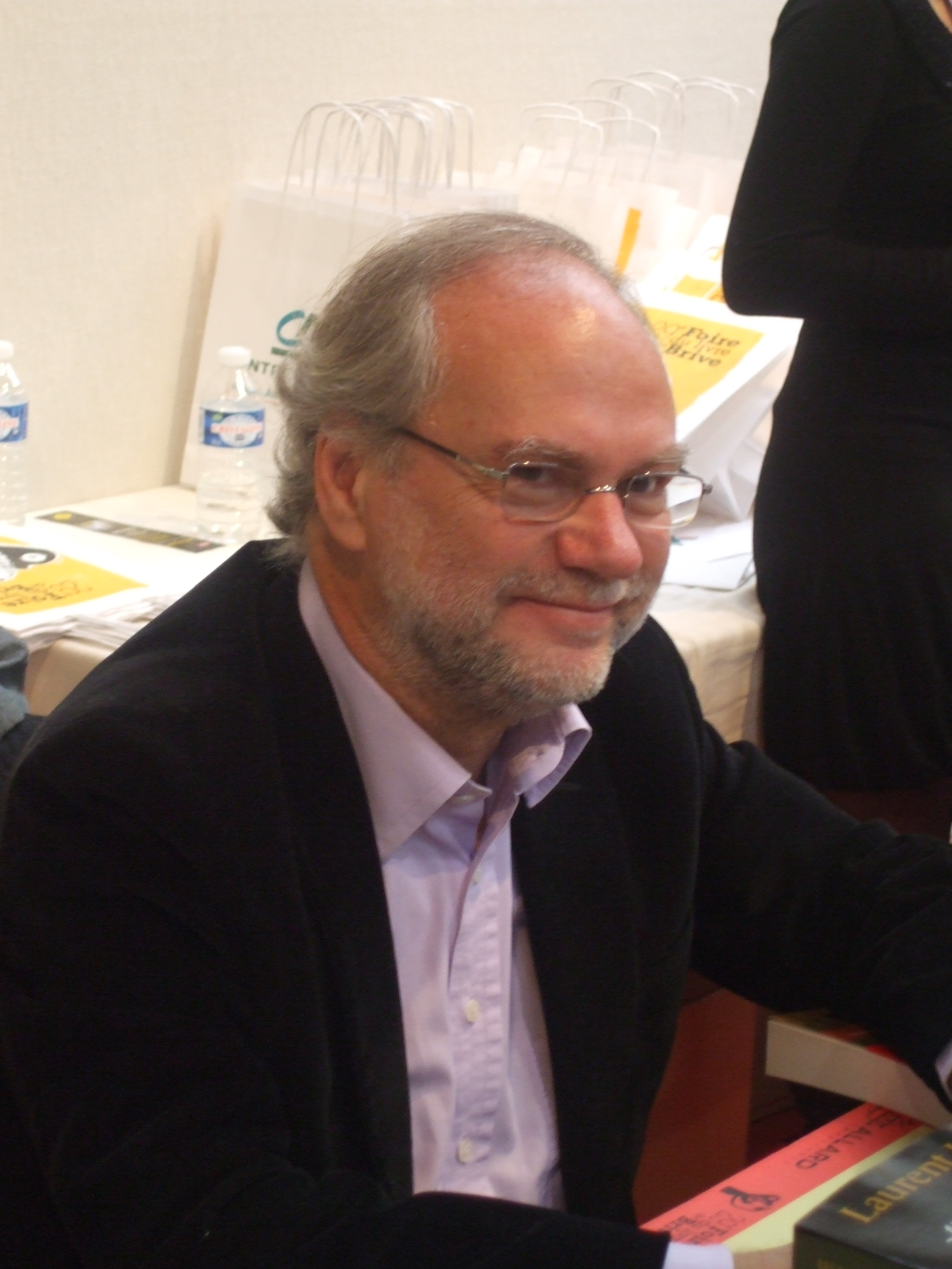 Laurent Joffrin, french journalist and writer, Brive la Gaillarde book fair, France, 2010 11 06